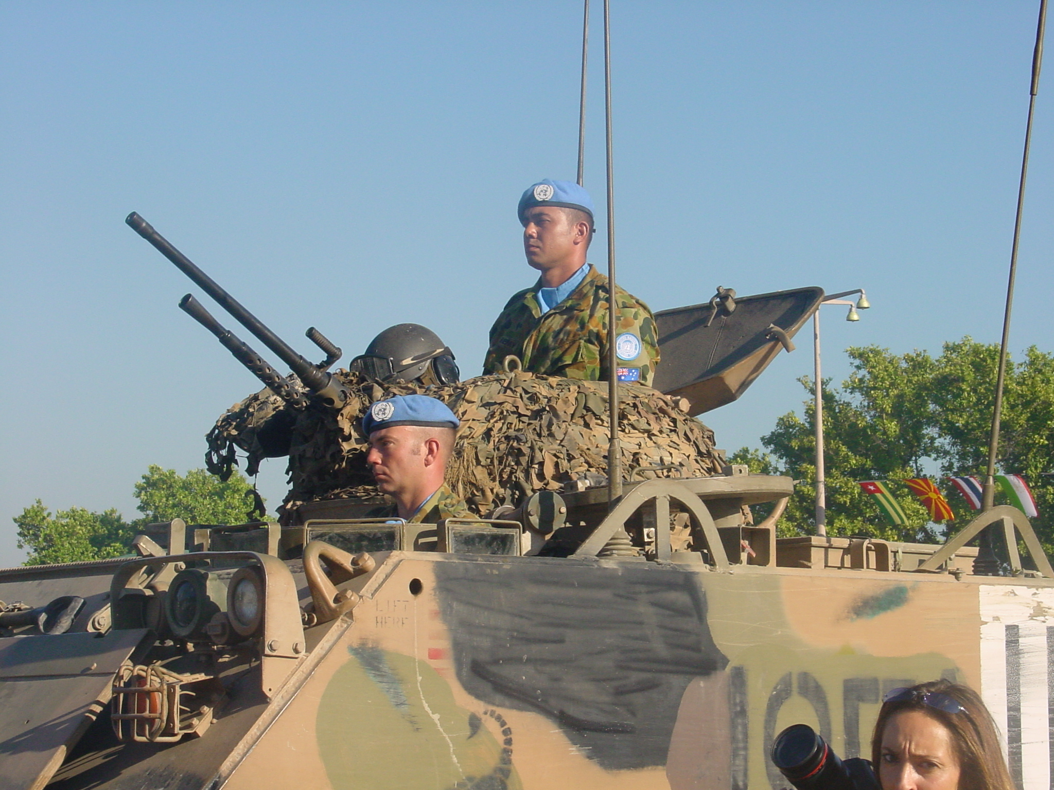 Australian peacekeepers in East Timor. M113 armoured personnel carrier of 3rd/4th Cavalry Regiment